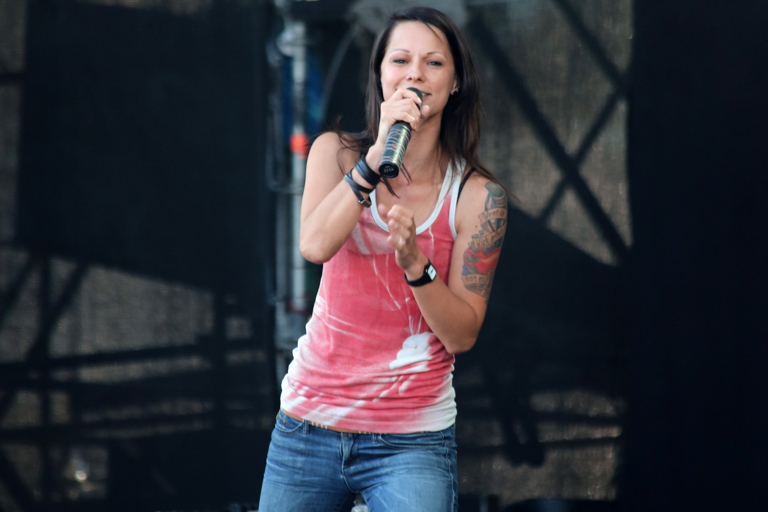 Christina Stürmer & Band - Donauinselfest 2013 in Vienna, Austria